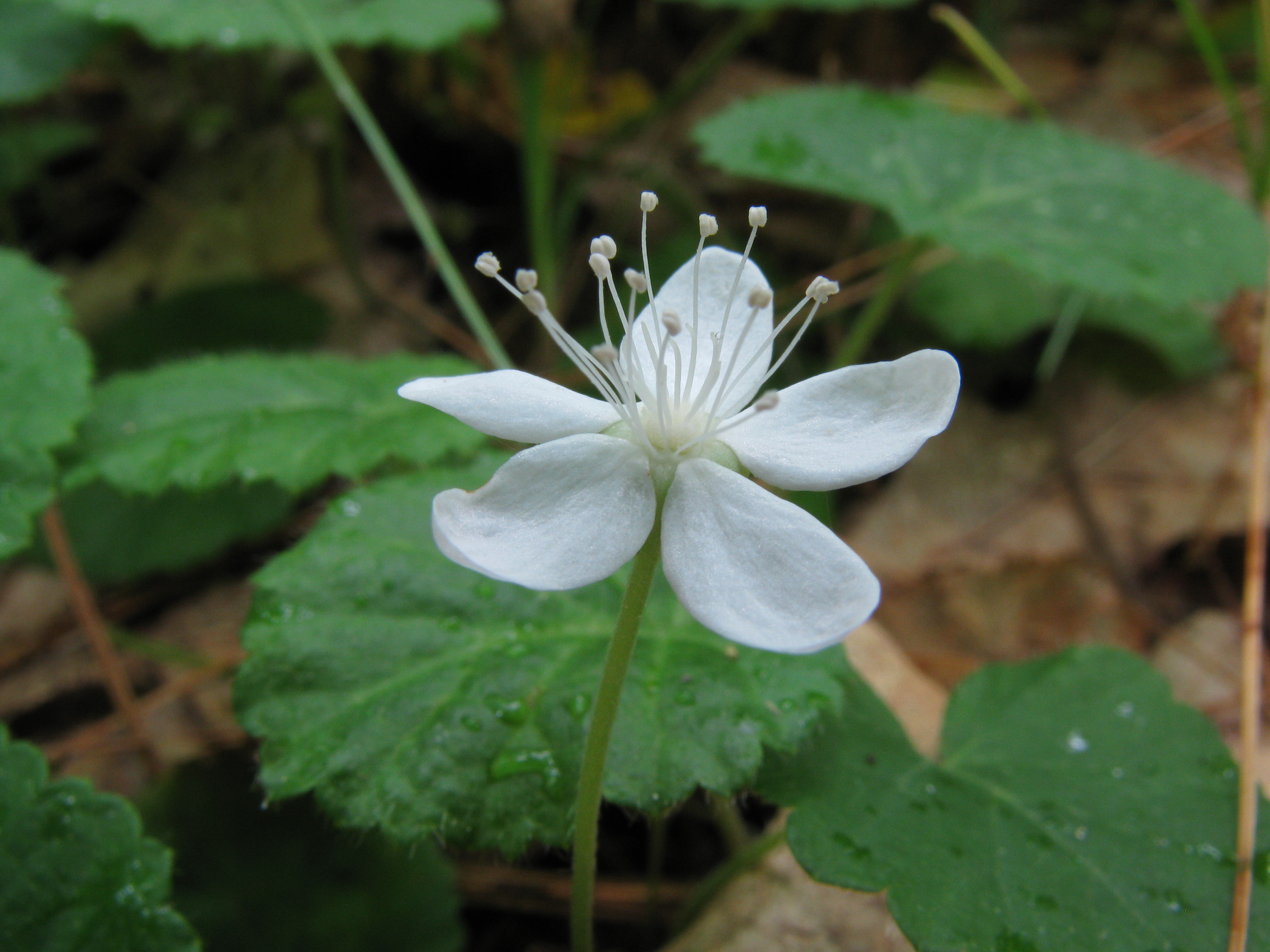 Dew-drop in bloom.